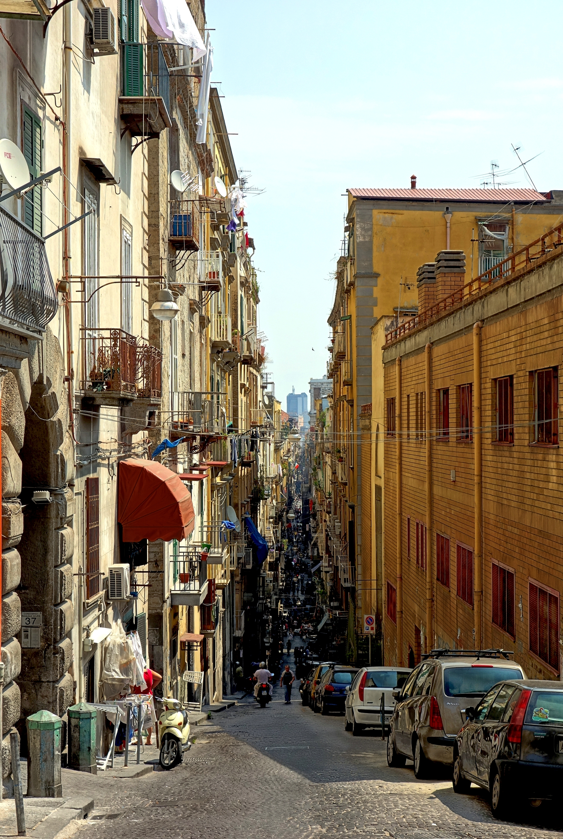 Spaccanapoli perspective in Naples, Italy.